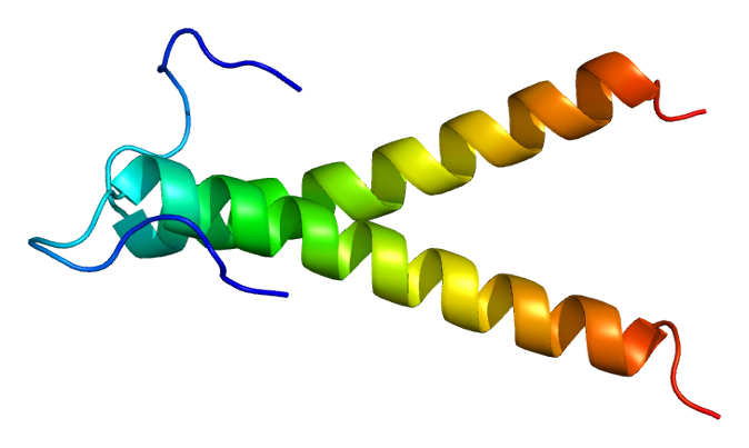 Structure of the GYPA protein. Based on PyMOL rendering of PDB 1afo.